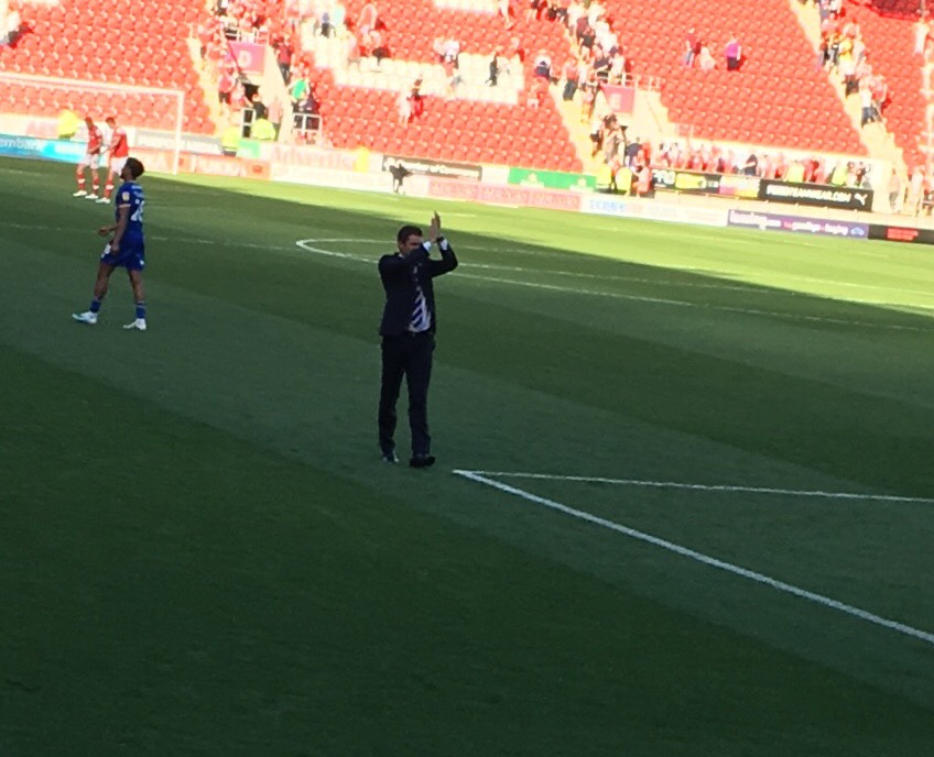 Sam Ricketts applauds travelling Shrewsbury Town fans at Rotherham, 21 September 2019